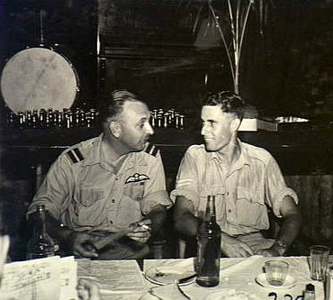 Port Moresby, Papua. c. 1944. Air Commodore A. M. Charlesworth AFC chats with a RAAF corporal (unidentified) at a combined dinner in the officers mess.